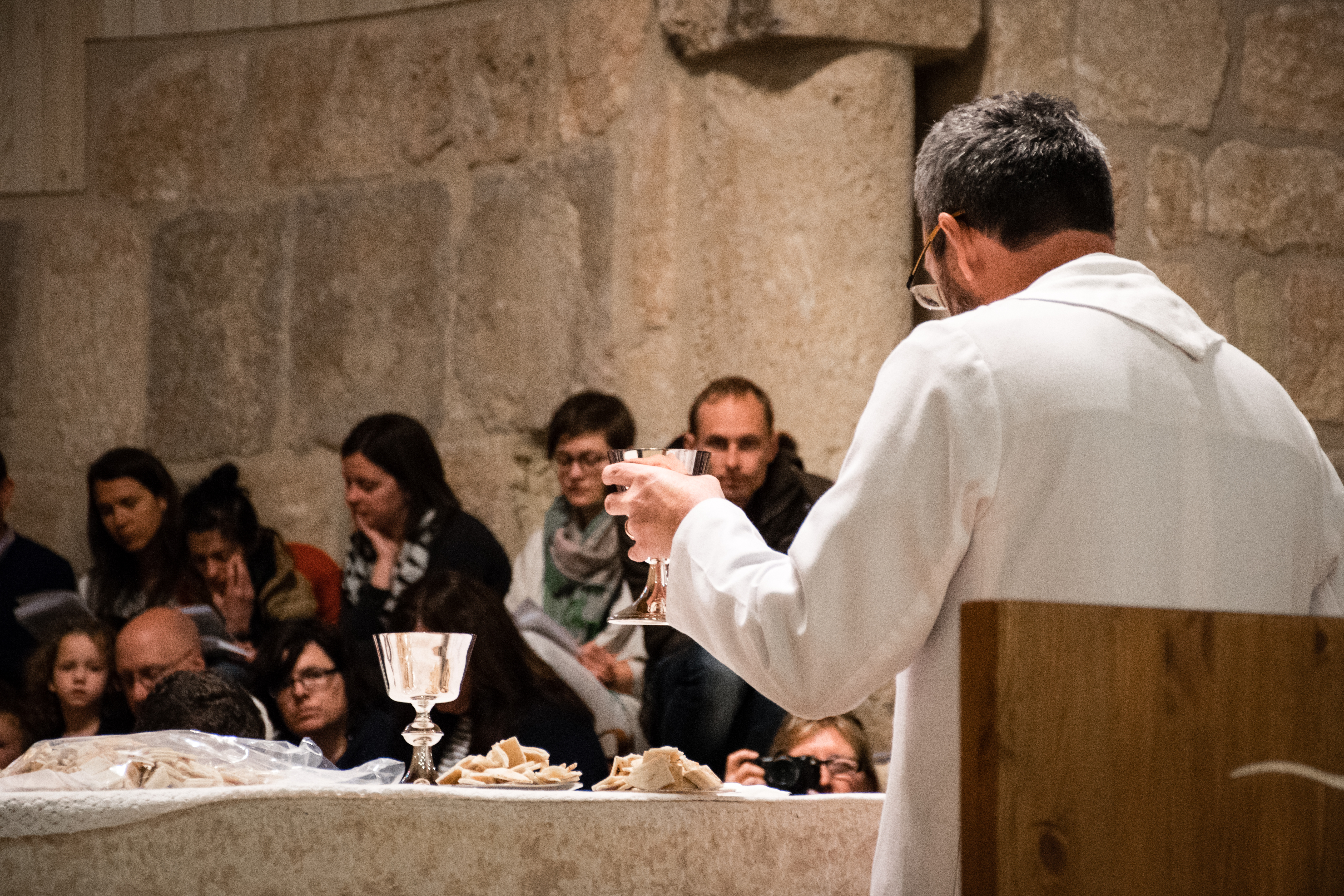 Holy communion at Mount Nebo Church, during the Easter sunrise mass.